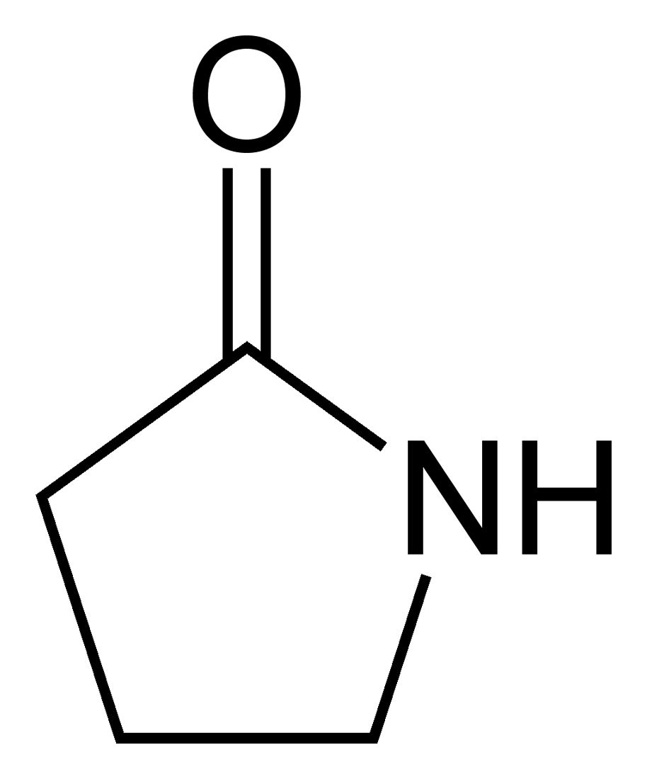 Skeletal formula of pyrrolidin-2-one